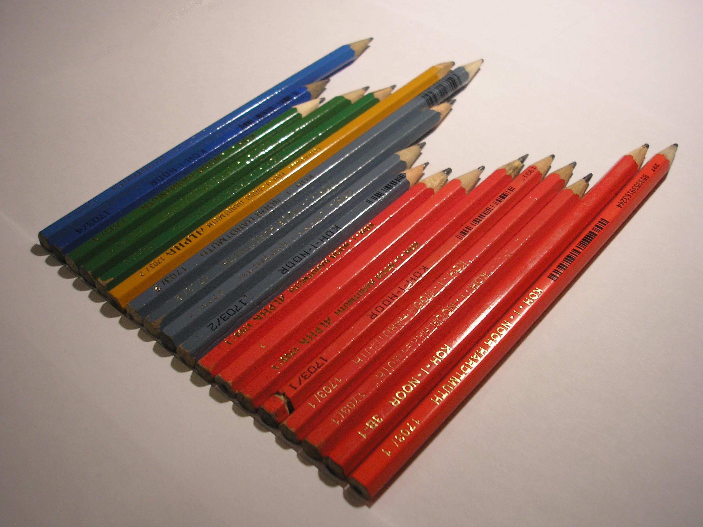 Original czech pencils made by company Koh-i-noor Hardtmuth